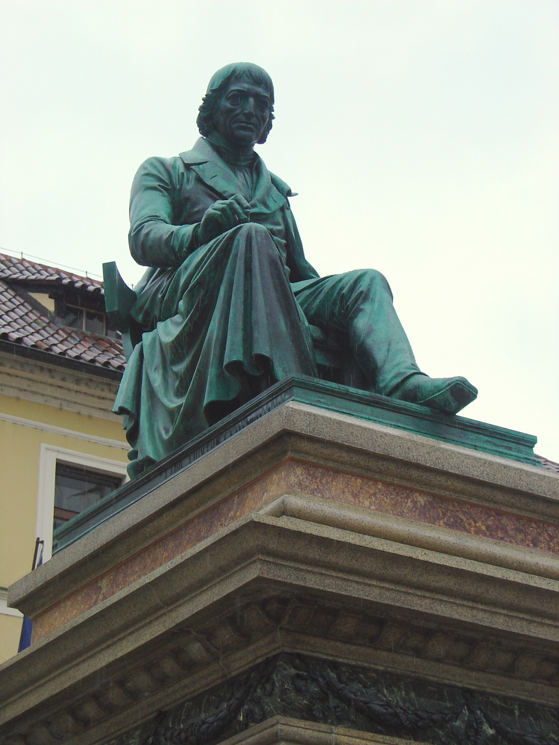 Statue of Josef Jungmann. Old town (Mustek), Prague